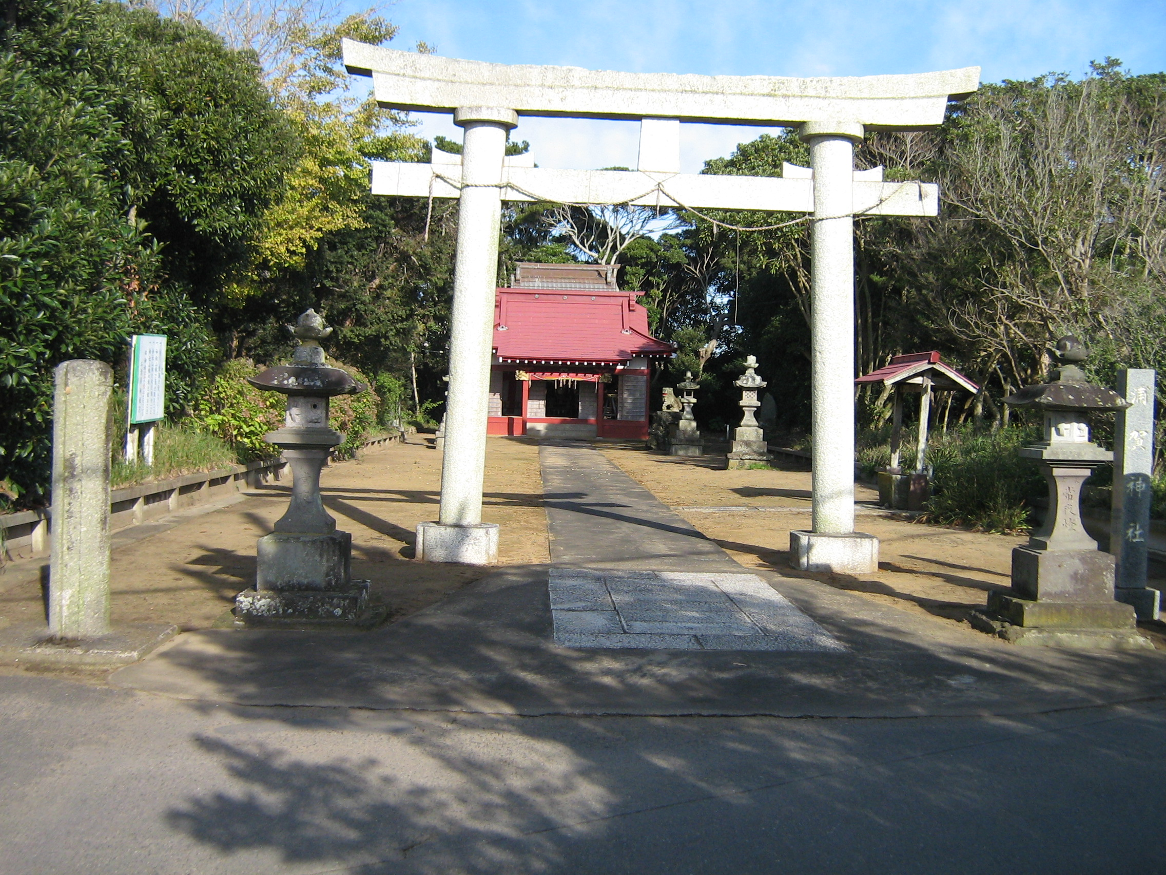 Torii at the Uraga Shrine (Uraga Jinja) in Asahi City, Chiba Prefecture, Japan